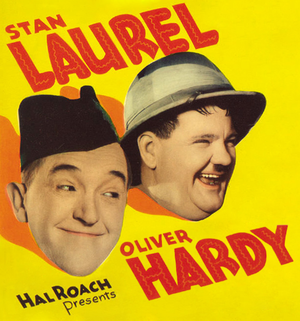 Laurel and Hardy faces and names, from a lobby card for the Laurel and Hardy film Bonnie Scotland, also known as Heroes of the Regiment upon rerelease